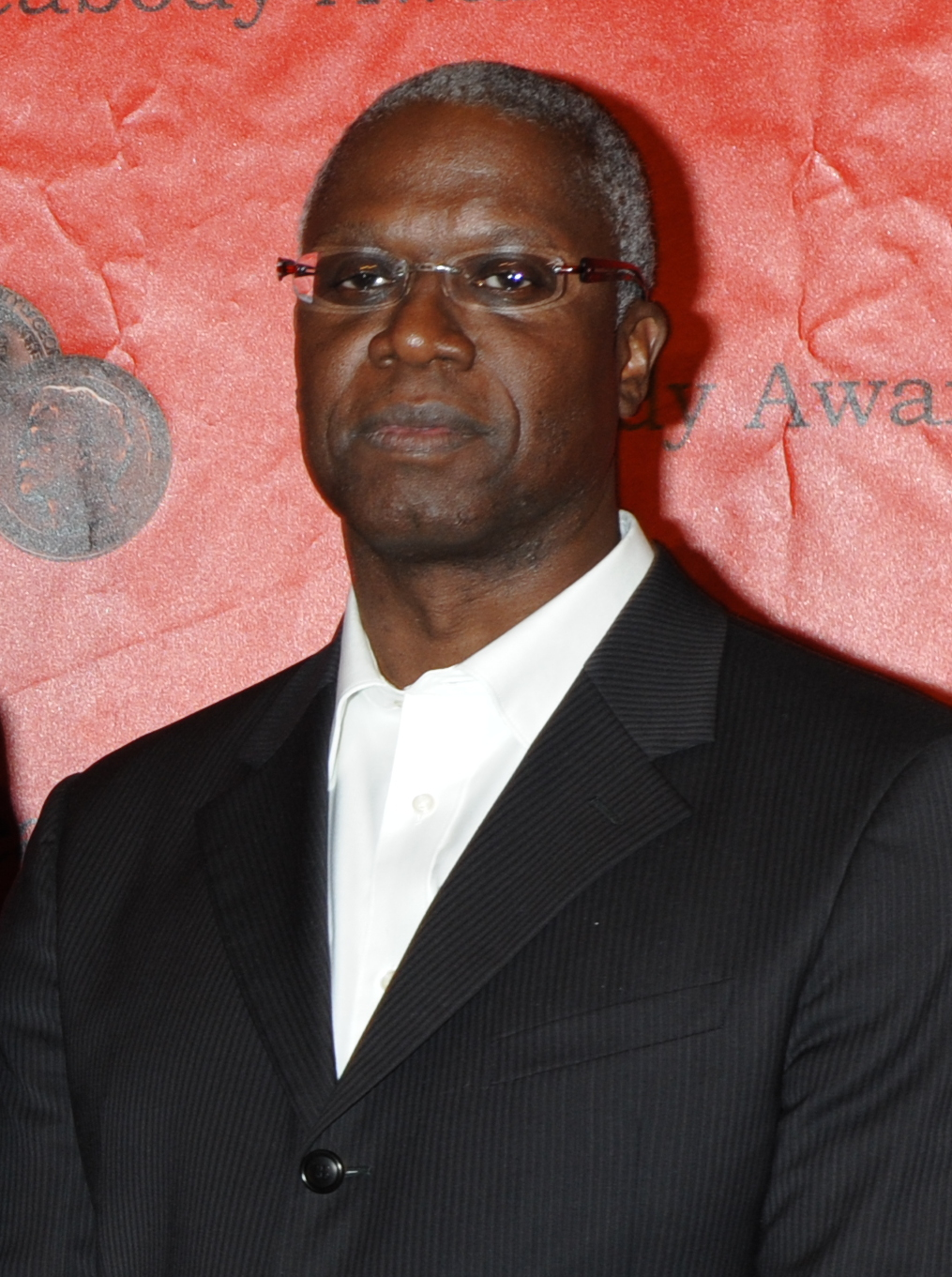 PHOTO CREDIT: ANDERS KRUSBERG / PEABODY AWARDS 70th Annual Peabody Awards Luncheon Waldorf=Astoria Hotel May 23, 2011